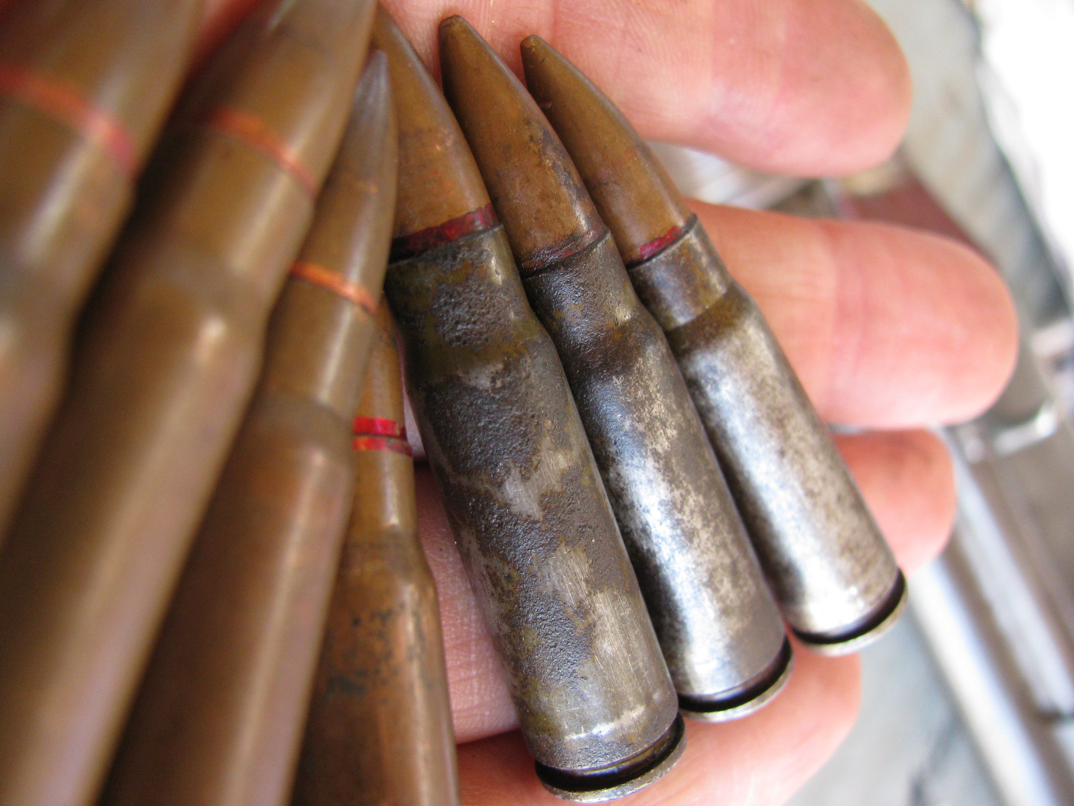 AK 47 bullets from China, Pakistan and Russia. Original caption: I was hanging out with the security guards, and one of them is quite the grizzled warrior. He has bullets wounds from both Russians and Taliban. I was chatting with him about weaponry, and the differences between Chinese/Russian/KyberPassCopies came up. He pulled out his magazine and went through the rounds, and identified them by sight as being from either Russia, China, or Pakistan. The Pakistan ones, in his humble opinion, are crap, with the Russians being the best. If found this interesting, because there was obvious corrosion on the jackets of the Russian ones. He stated the insides were perfect. I asked how he knew for sure... At which point he manually extracted the bullet from the jacket and dumped the powder out on a piece of paper so he could examine it. I can't tell you what parameters he was judging... the finer points of inspecting the interior of 7.62x39 rounds escape me... by the time the bullets leaving the jacket I prefer to be far, far away.